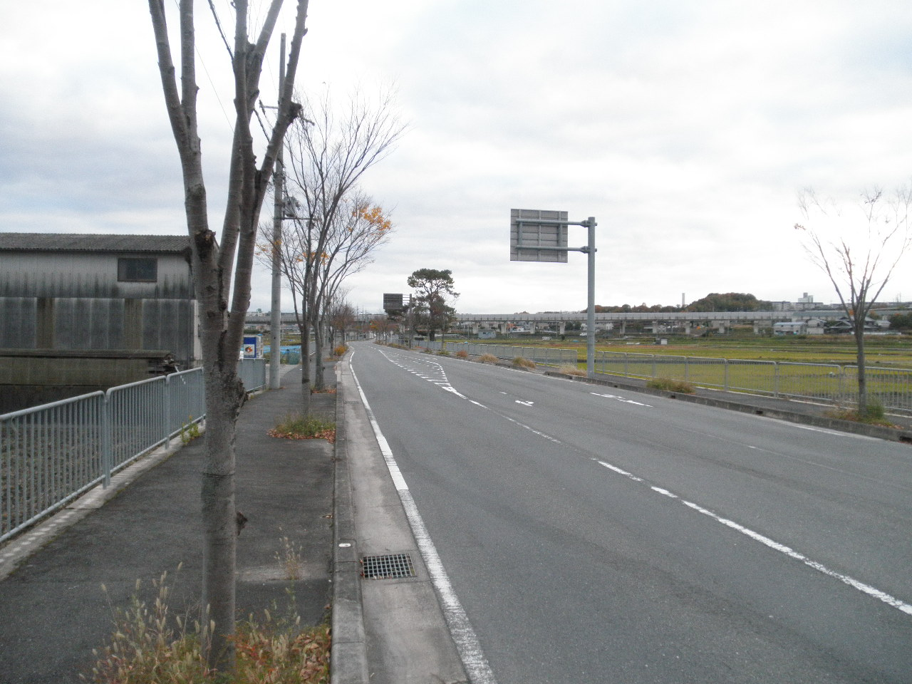 Saganaka Kawakubo Kizugawacity Kyotopref Kyotoprefectural and Naraprefectural road 751 Kizu Heijyo LIne